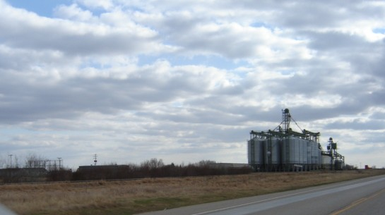 Vanscoy feedlot enroute... Saskatoon to Delisle SK Hwy 7